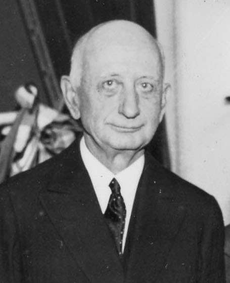 President Franklin D. Roosevelt signs the Gold Bill on January 30,1934 Photo Credit: Underwood & Underwood --Franklin D. Roosevelt Presidential Library and Museum. More information: Left to right: Henry Morgenthau Jr., Eugene R. Black, George F. Warren, Samuel Rosman and James Harvey Rogers attend as President Roosevelt signs the Gold Reserve Act into law, 30 January 1934 Gold Reserve Act of 1934.